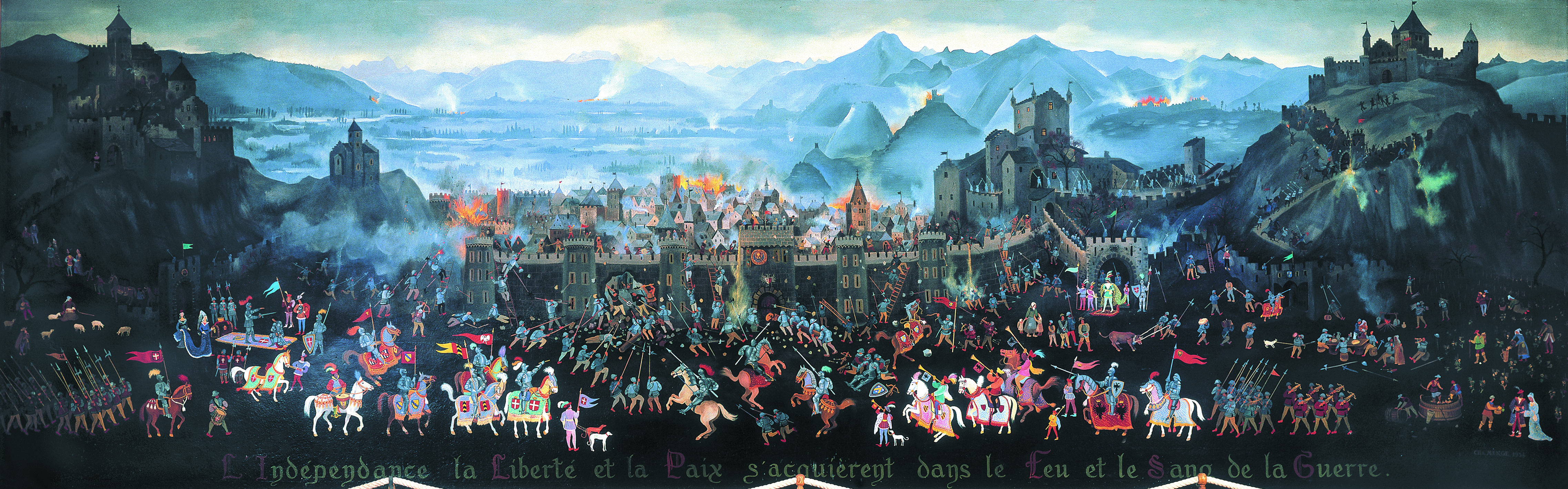 Wall painting made at the Caserne de Sion in Valais, bringing the battle between the Savoy invaders and the people of the Old Country, Valais